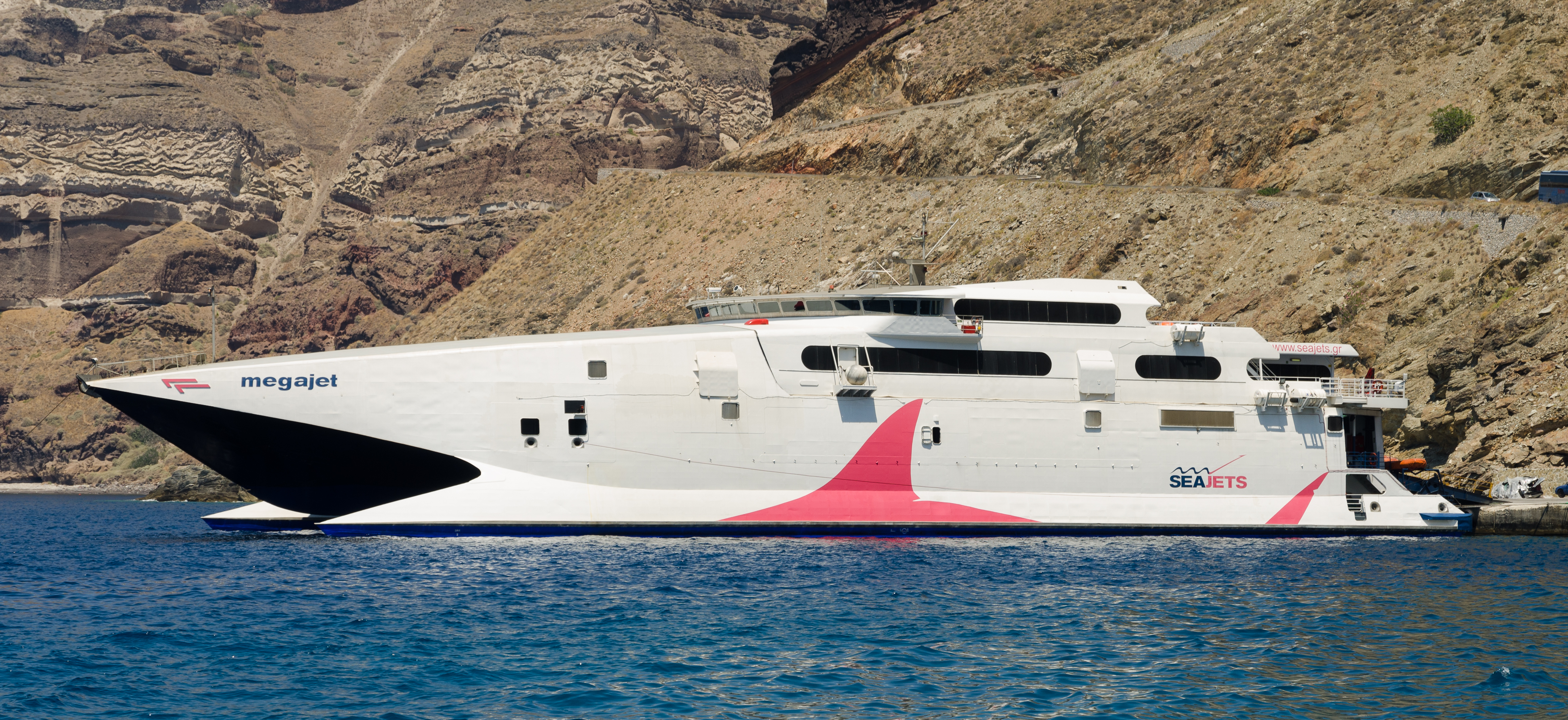 Megajet ferry, Seajets shipowning company, Athinios harbour, Santorini, Greece.